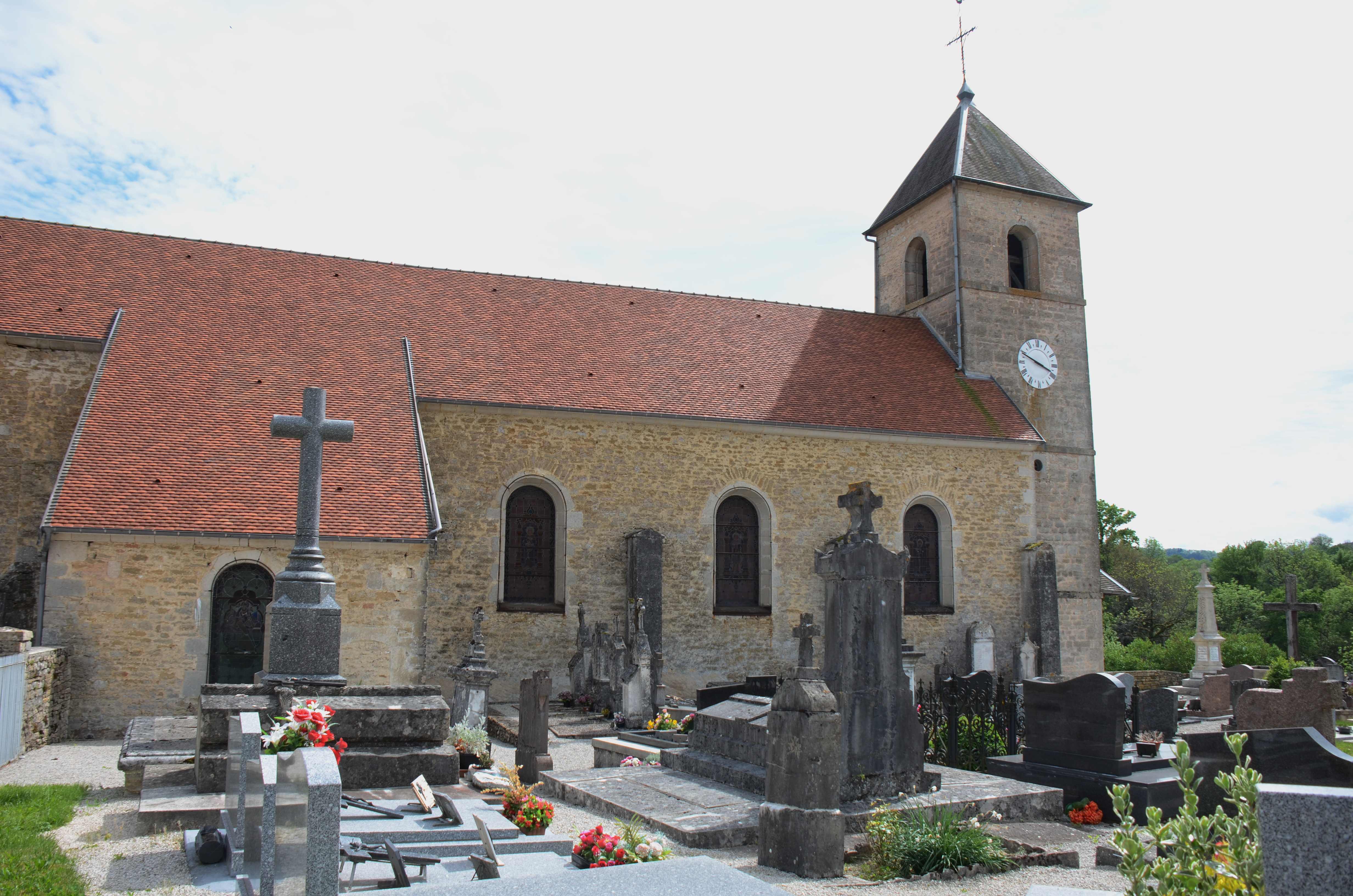 Church and cemetry of Scey, known of the Miroir de Scey at the Loueriver